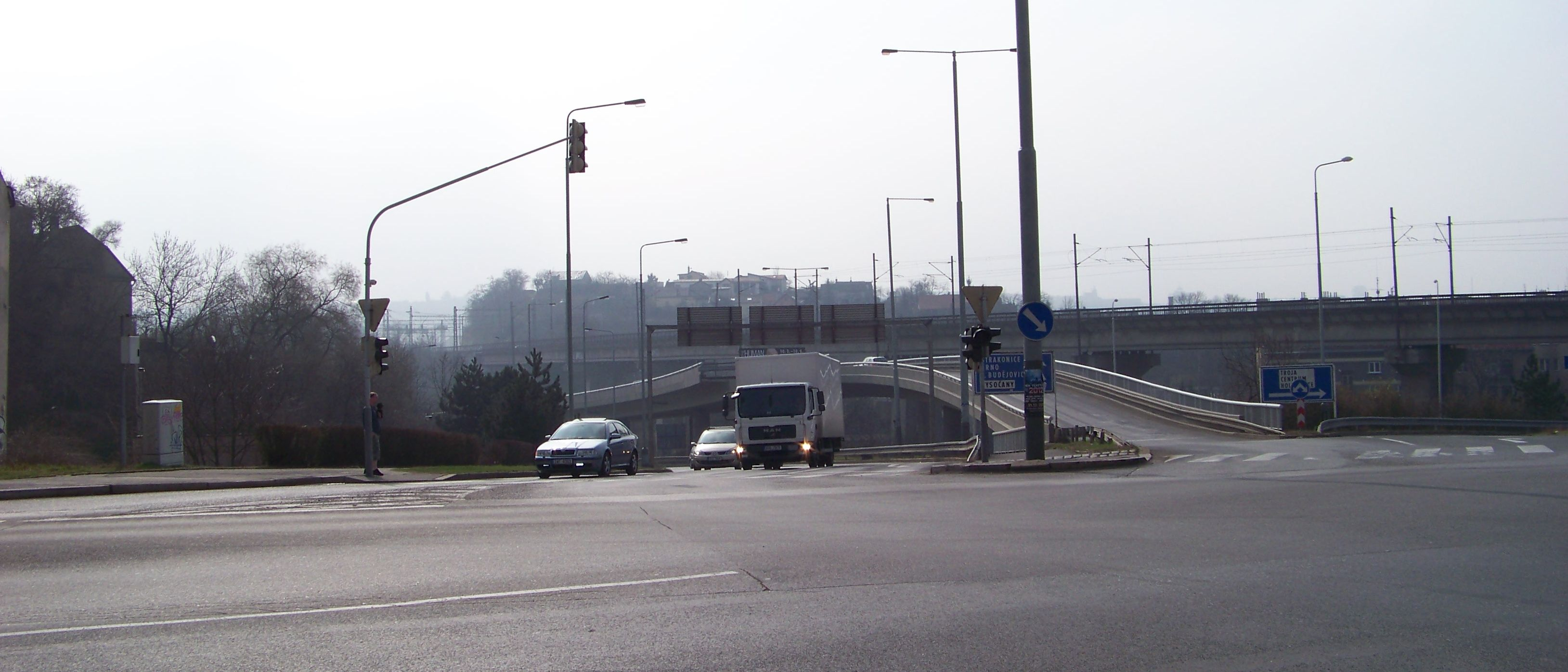 Prague-Libeň, the Czech Republic. Čuprova street, seen from Prosecká street. - OpenStreetMap(Info)